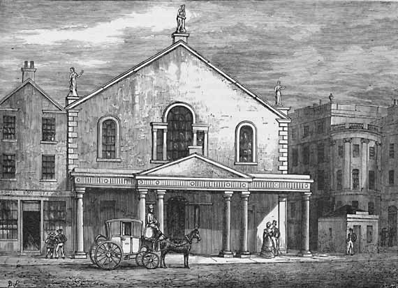 Theatre Royal, Edinburgh - prior to 1830 The Theatre Royal, Edinburgh. Drawn by Thomas Hosme Shepherd, 1829.